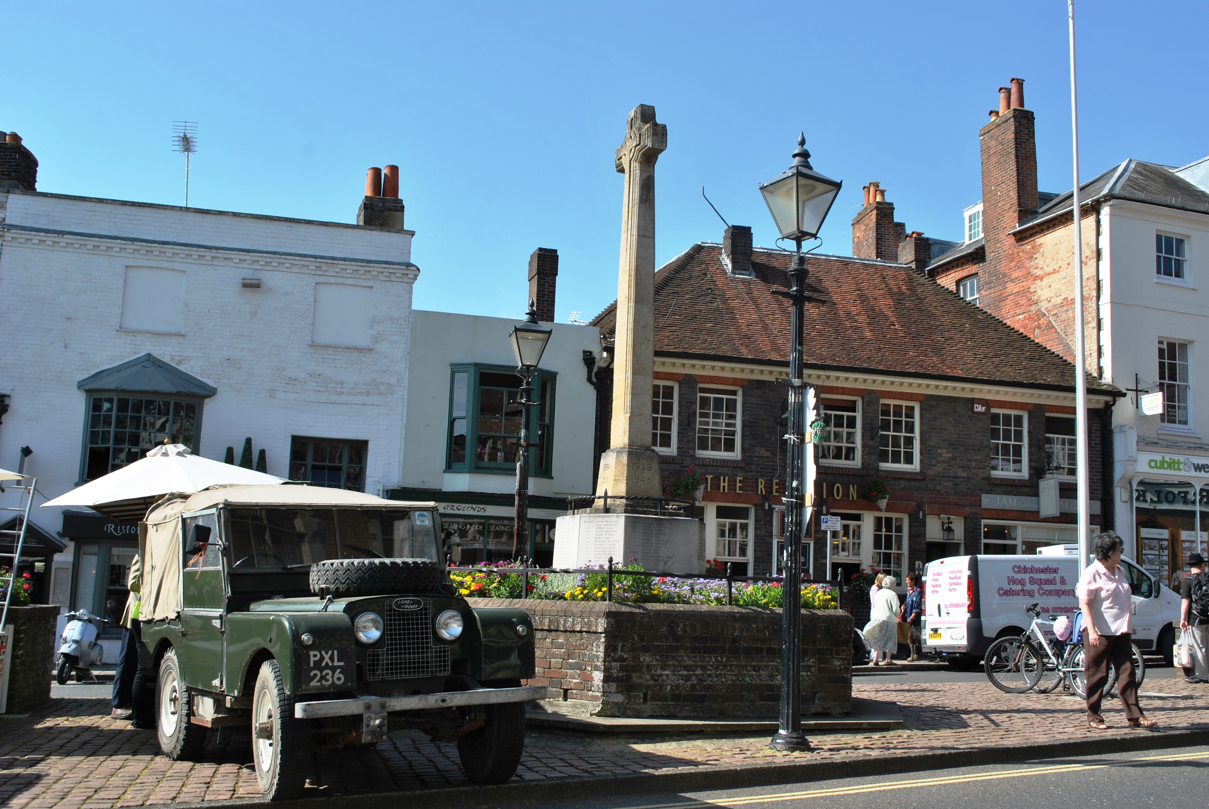 Arundel